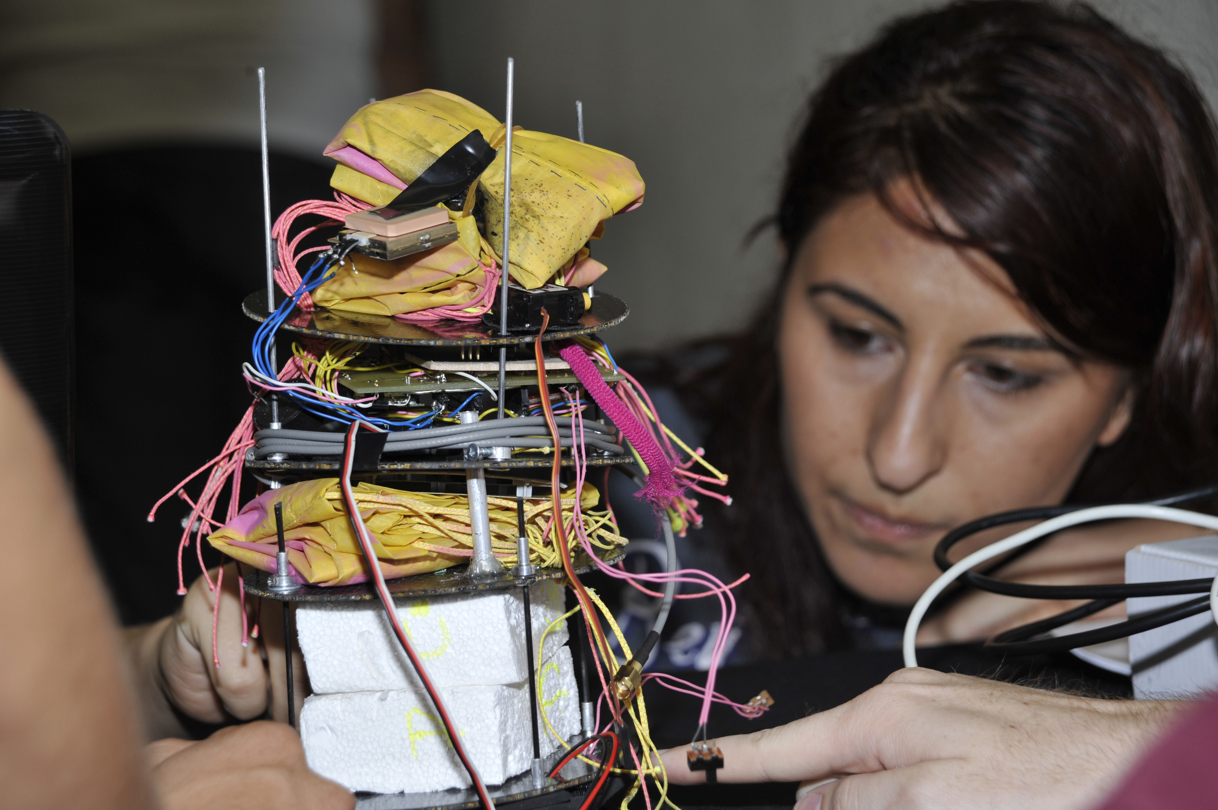 Image description: A student participating in the CanSat competition goes through a pre-flight safety check of her satellite. The CanSat competition, sponsored by the Navy Research Laboratory and NASA, challenged teams of college students to develop a satellite in a can with a special deployable part that would land safely and protect a raw egg inside. The satellites were launched about 2001 feet in the air by rockets. Twenty-six team entered the competition, held in Texas, and earned points based on design, pre-flight inspections and post-flight reviews.